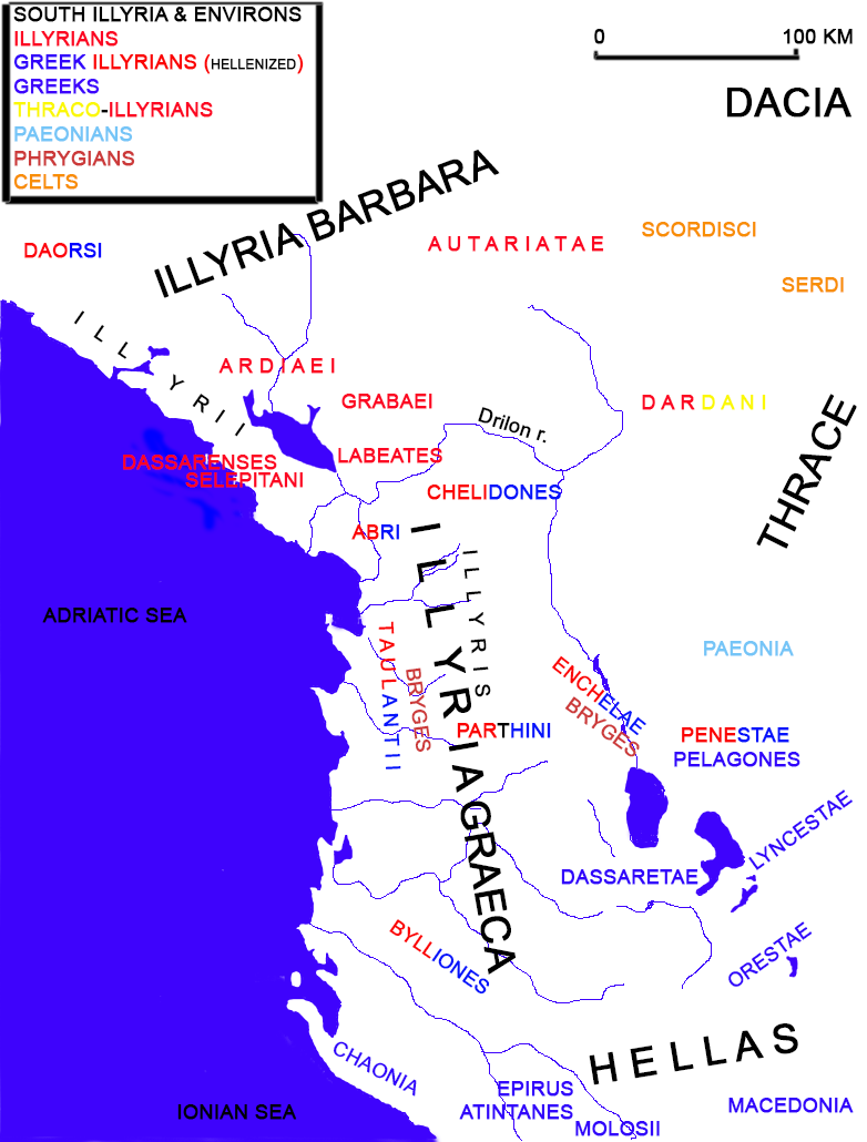 Map of ancient Illyria & Environs, Thracian, Illyrian, Paeonian, & Greek contact zones with illustration and extent of Hellenization up to the creation of Epirus Nova or Illyria Graeca